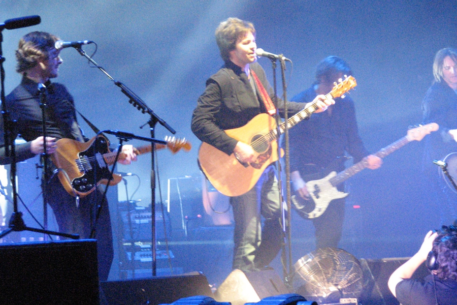 An photograph of Australian rock band Powderfinger performing at a 2007 tour.